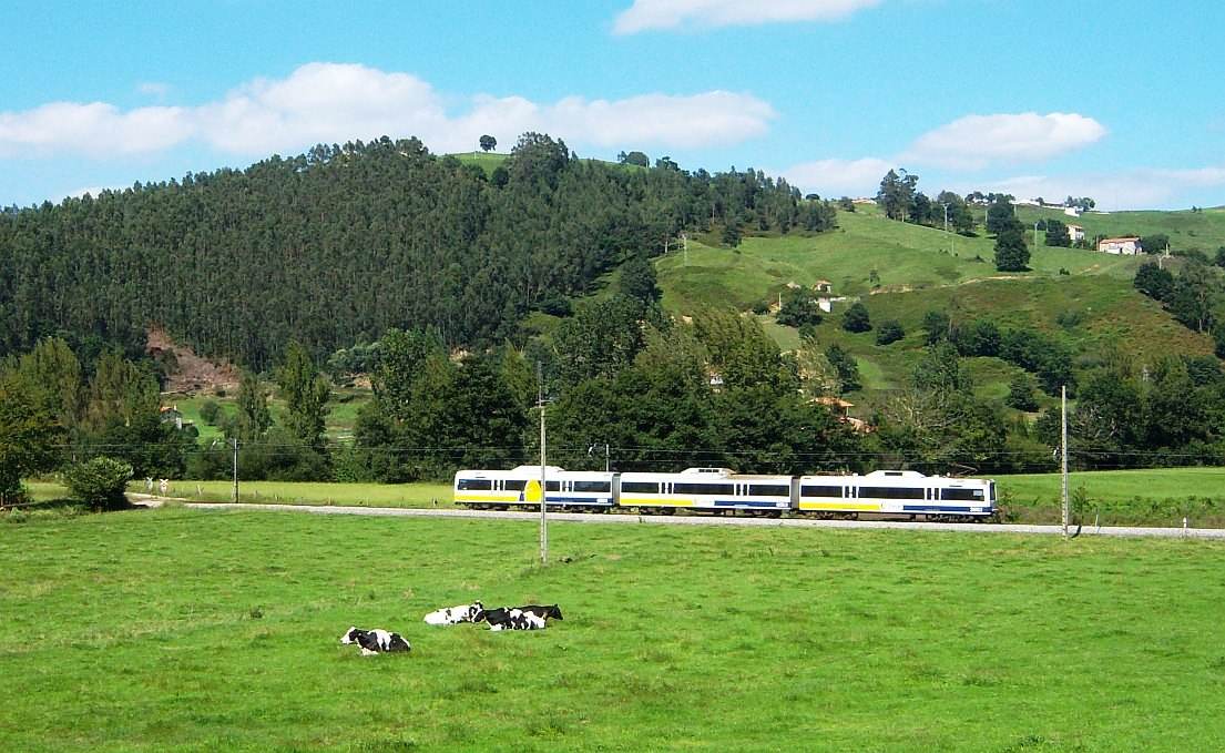 Railroad Santander - Liérganes (Cantabria, Spain).